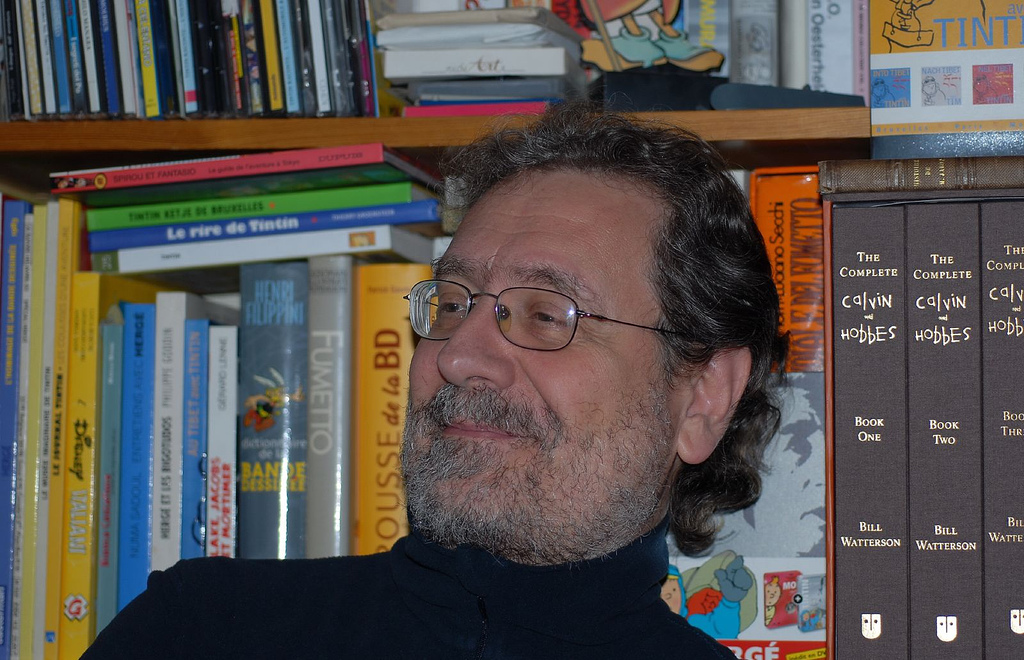 The Italian comic art creator Gianfranco Goria. Photo by Gianfranco Goria. Autoritratto di Gianfranco Goria, autore di fumetti italiano, davanti alla sua biblioteca fumettistica.